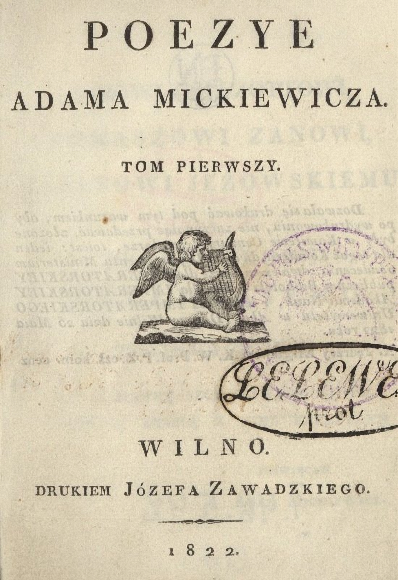 Poems by Adam Mickiewicz. V. 1. - Vilnius; printed by Józef Zawadzki, 1822; Adam Mickiewicz (1798-1855)